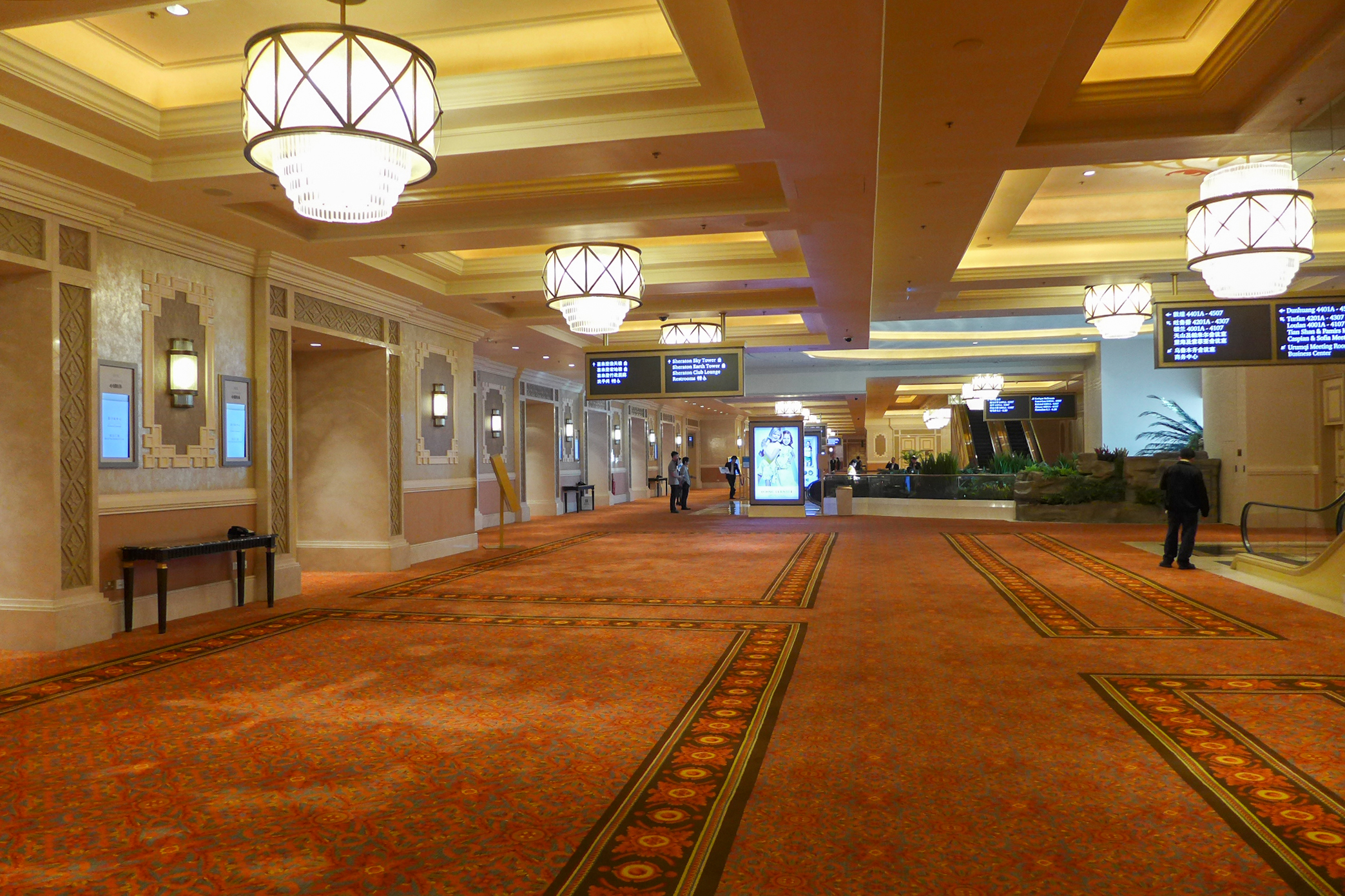 Sands Cotai Central Conference Centre Lobby